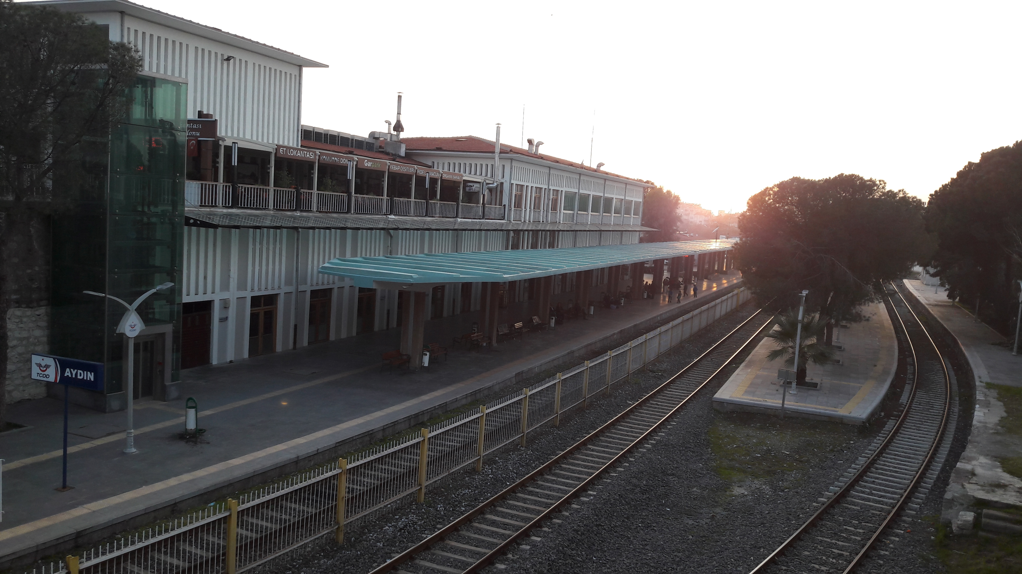 Aydin railway station from the east.